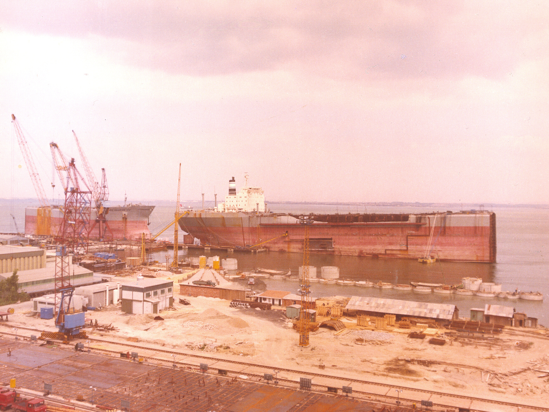 Hilmar Reksten's tanker King Haakon VII being repaired after having been damaged in an explosion in 1969.